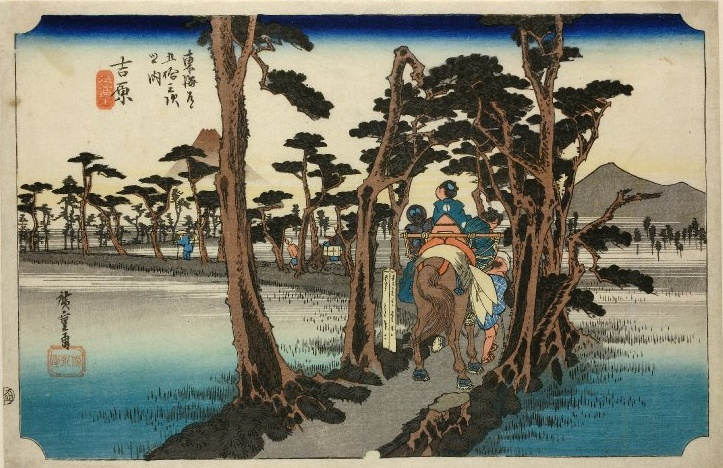 Station Yoshiwara , „Mount Fuji on the Left“ (hidari Fuji, 左富士); publisher seal Hoeidō (保永堂)